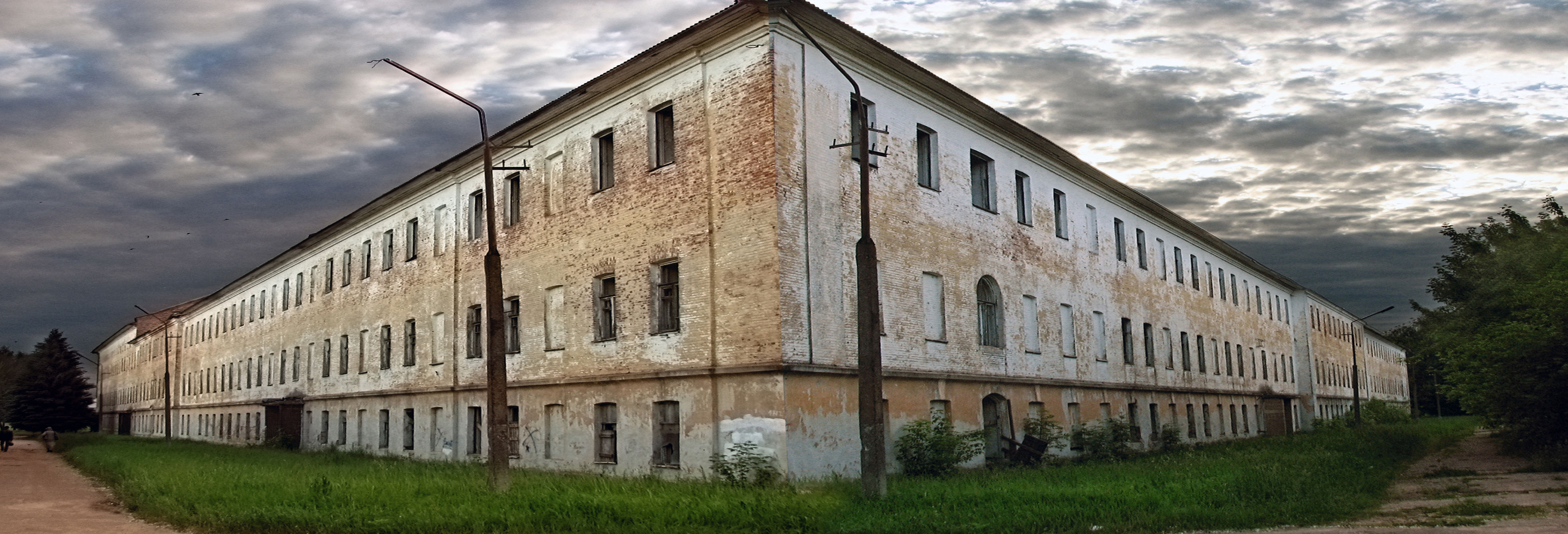 Беларуская (тарашкевіца): Крэпасць. г. Бабруйск This is a photo of Belarusian heritage monument. Reference number: 512Г000059 ( WLM)